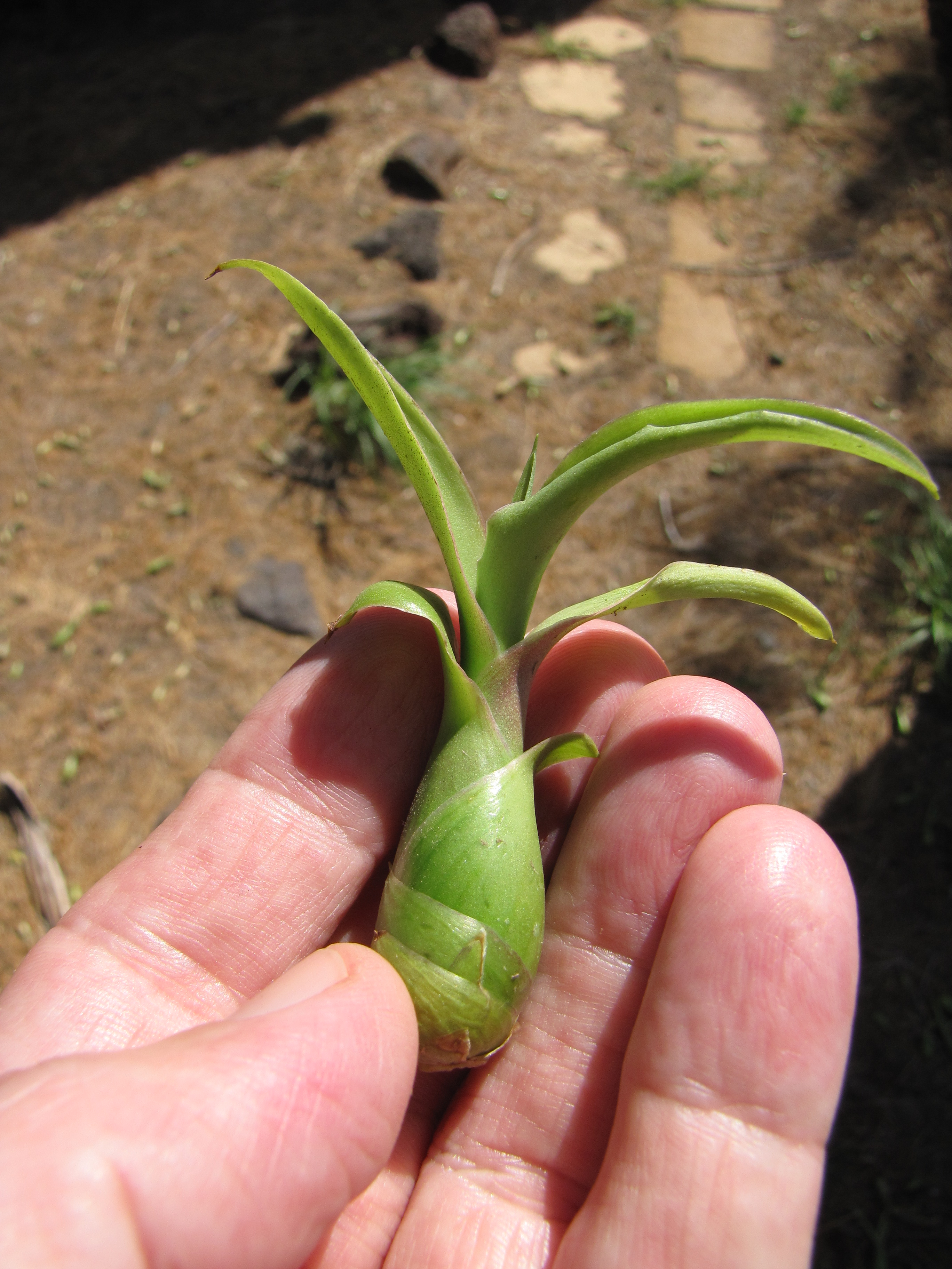 Furcraea foetida (Mauritius hemp) Bulbil in hand at Honokanaia, Kahoolawe, Hawaii.